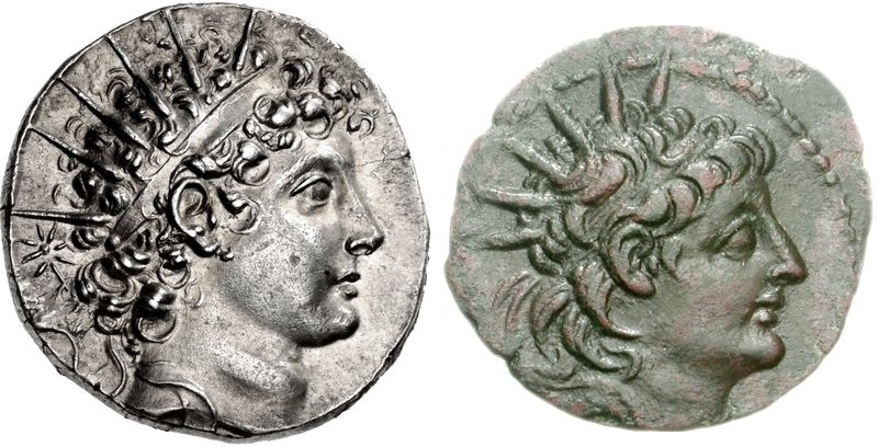 For Antiochus VI: CNG 109, Lot: 320. Estimate $2000. Sold for $4500. This amount does not include the buyer’s fee. SELEUKID EMPIRE. Antiochos VI Dionysos. 144-142 BC. AR Tetradrachm (27.5mm, 16.94 g, 1h). Apameia on the Orontes mint. Dated SE 169 (144/3 BC). Radiate and diademed head right; star to left / The Dioskouroi riding left, holding couched lances; thyrsos to left; to right, TPY above IΠ above K; ΘΞP (date) below; all within wreath of laurel, ivy, and grain ears. SC 2010.4c; Houghton, Revolt, Group XIII, – (unlisted dies); HGC 9, 1032. Superb EF, lightly toned, underlying luster, minor marks. Bold portrait. Very rare. Ex Roma XIII (23 March 2017), lot 449. For Alexander II: Sale: CNG 82, Lot: 721. Estimate $200. Closing Date: Wednesday, 16 September 2009. Sold For $241. This amount does not include the buyer’s fee. SELEUKID KINGS of SYRIA. Alexander II Zabinas. 128-122 BC. Æ 22mm (7.71 g, 12h). Antioch mint. Series 5, struck circa 125-122 BC. Radiate and diademed head right / Double cornucopia; A-Π flanking, star to lower left. SC 2237.1f. Good VF, attractive red-brown patina.